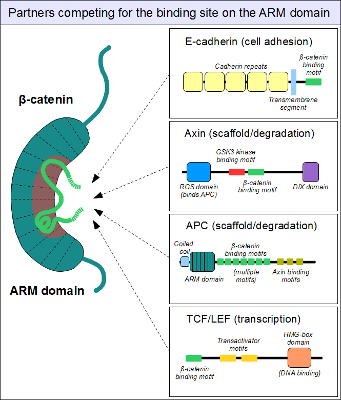 Partners competing for the binding site on the ARM domain of beta-catenin.